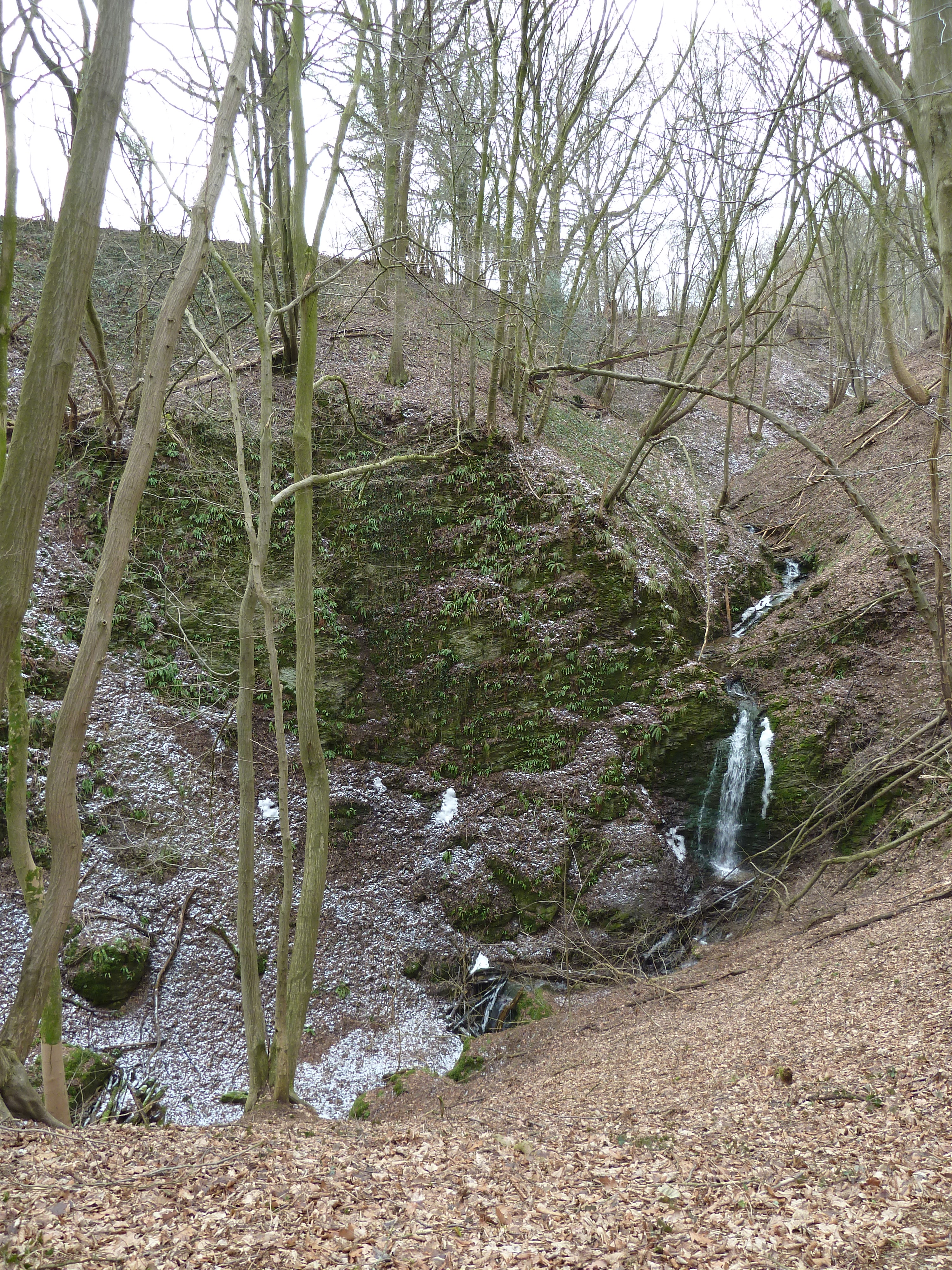 Chantoire de Grandchamp, chantoir near Adzeu, province Liège, Belgium